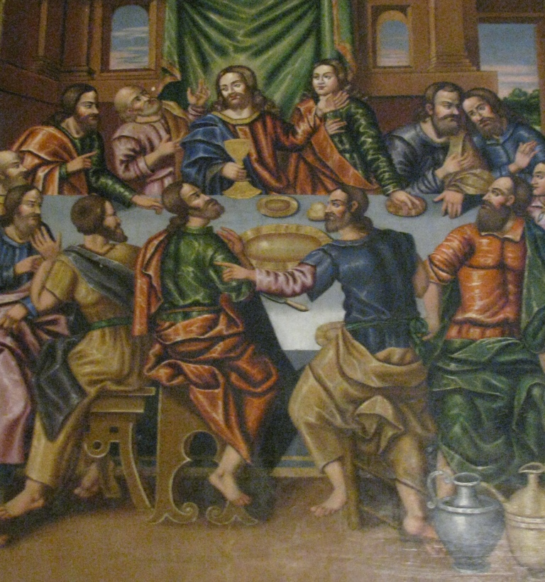 Last Supper in Vank Cathedral